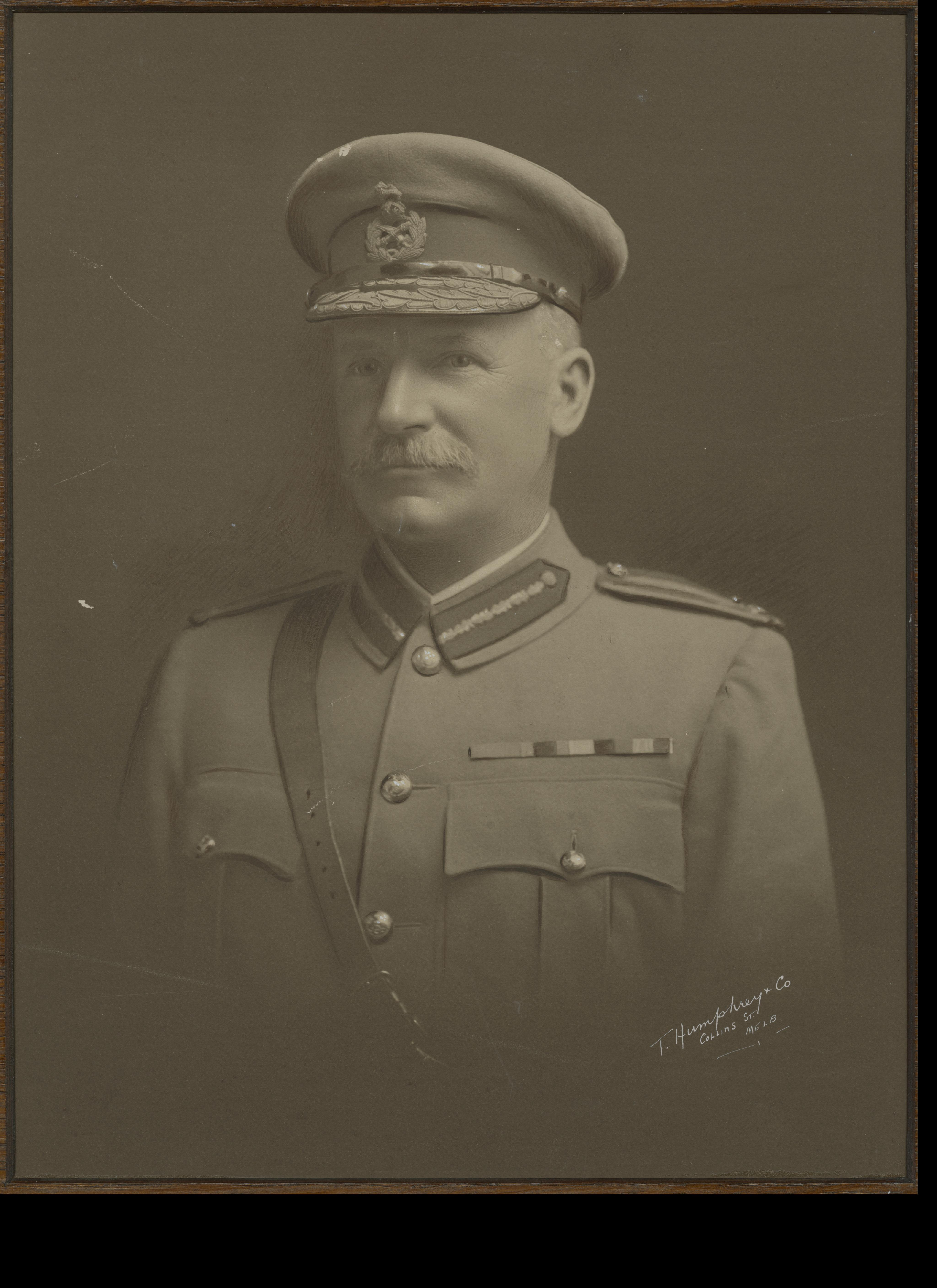 Major General Henry Finn c1906